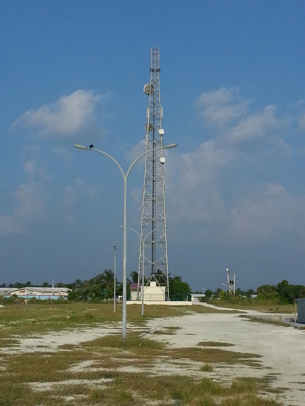 Telecommunications tower used by both Dhiraagu and Wataniya in Dhuvaafaru.